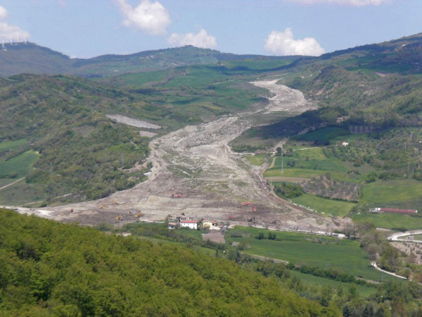 Montaguto landslide